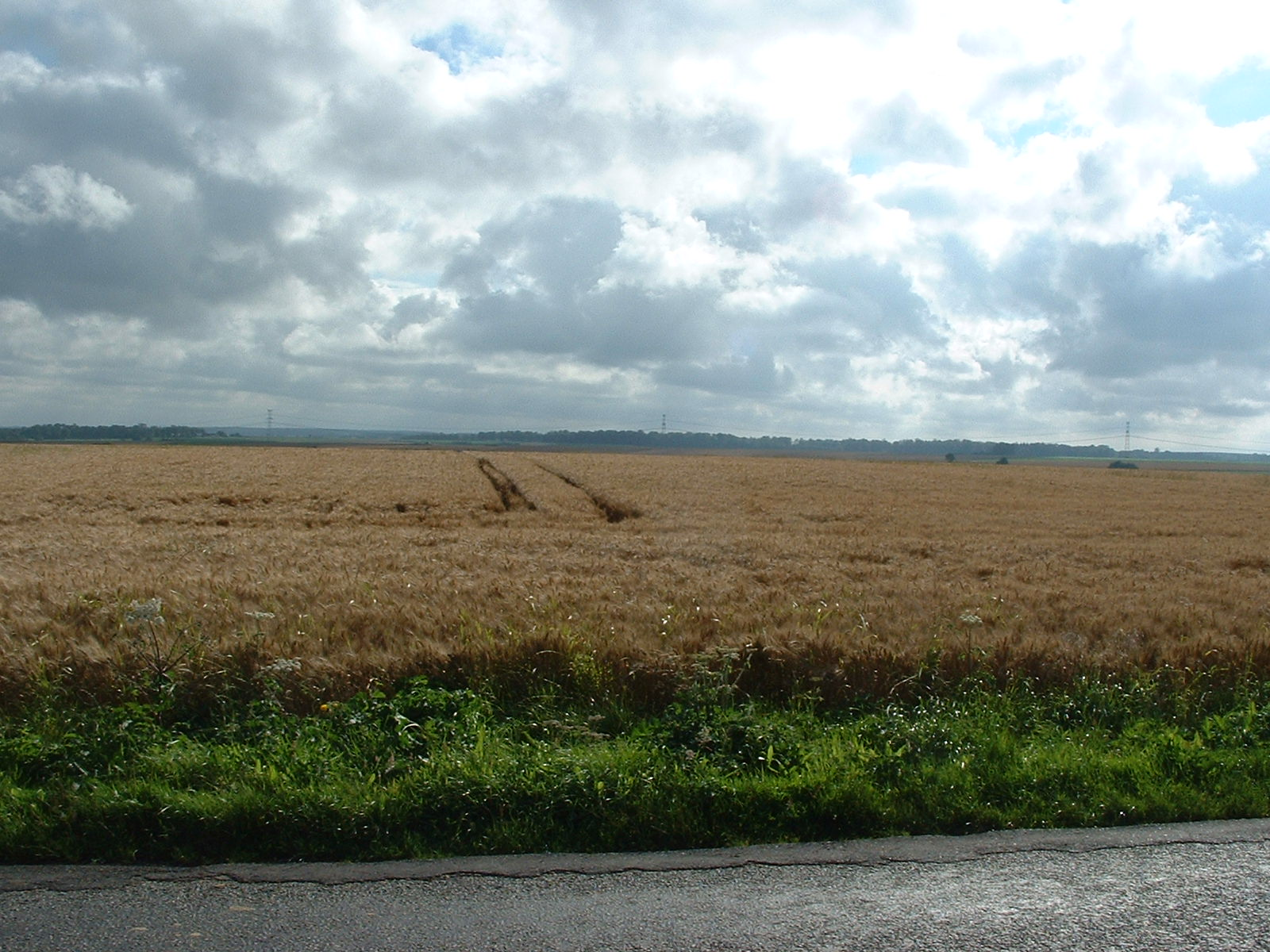 The site of the 1415 Battle of Azincourt (Agincourt in English), one of the most famous battles between the two nations, most notable for the (alleged) disparity of casualties: c5000 French and c100 English.